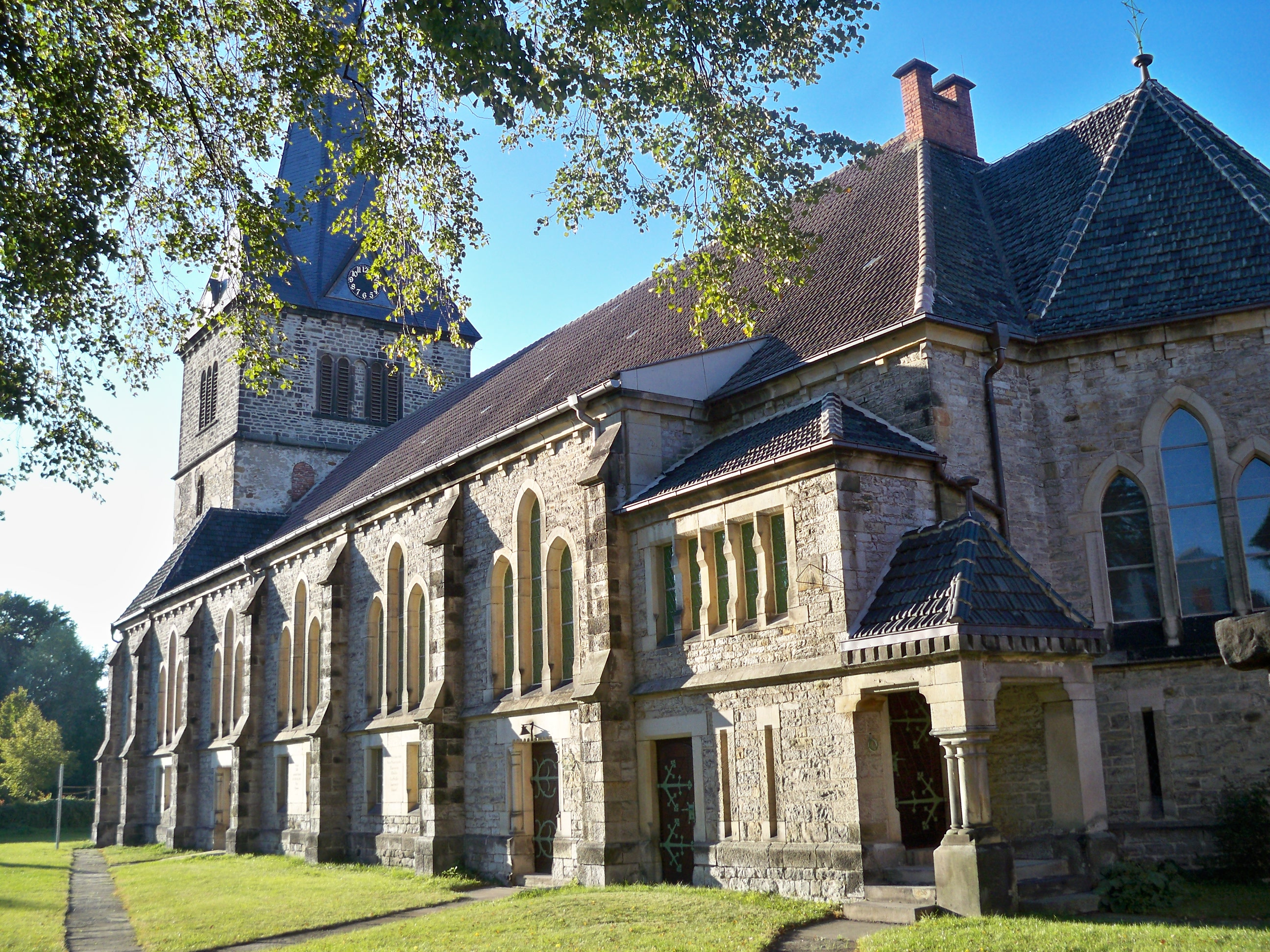 Oebisfelde-Weferlingen, Saxony-Anhalt, Nikolaikirche in Oebisfelde from south east